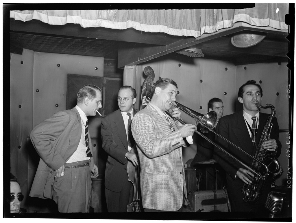 Jack Teagarden, Bill Harris, Dave Tough, and Charlie Ventura, Three Deuces, New York, N.Y., between 1946 and 1948 Photographs by William P. Gottlieb